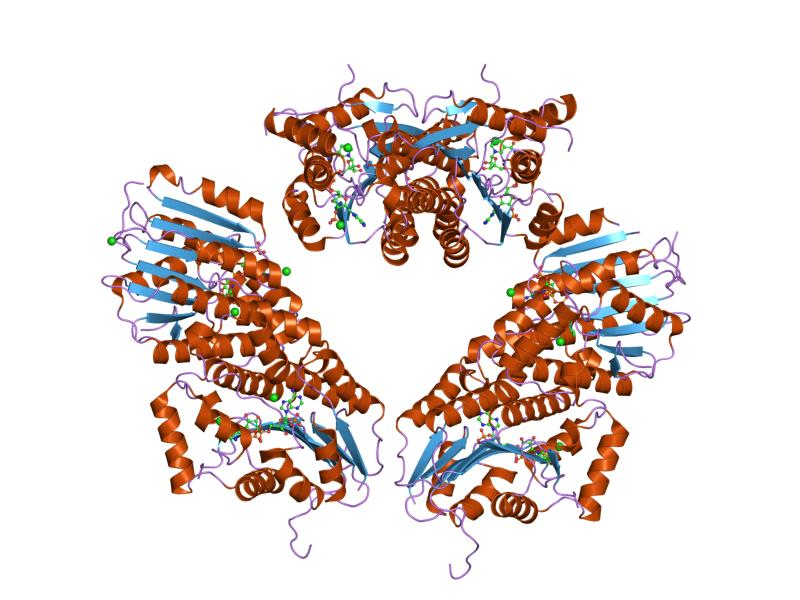 Cartoon representation of the molecular structure of protein registered with 1z6z code.